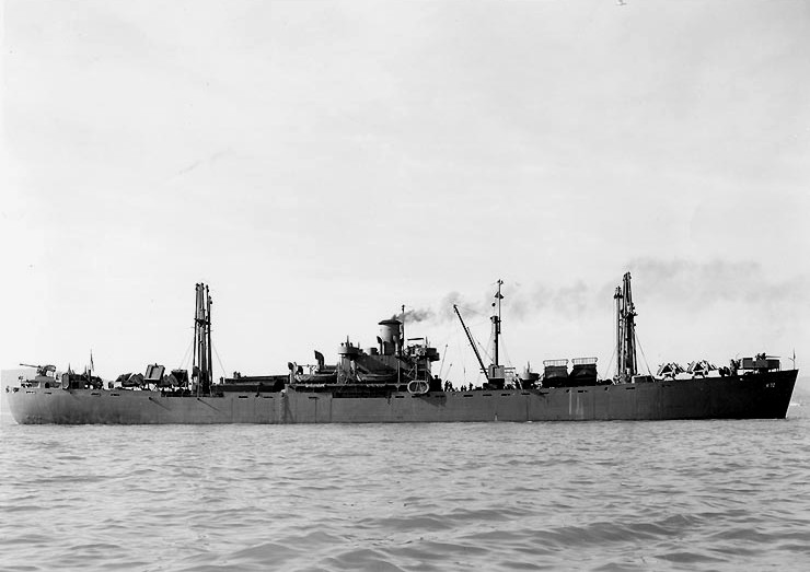 The U.S. Navy cargo ship USS Aludra (AK-72) circa late 1942 or early 1943. Note her deck cargo of four Grumman F4F-4 Wildcat fighters and several landing craft. Aludra was a Crater-class cargo ship and was sunk by the Japanese submarine RO-103 south of Guadalcanal on 23 June 1943.